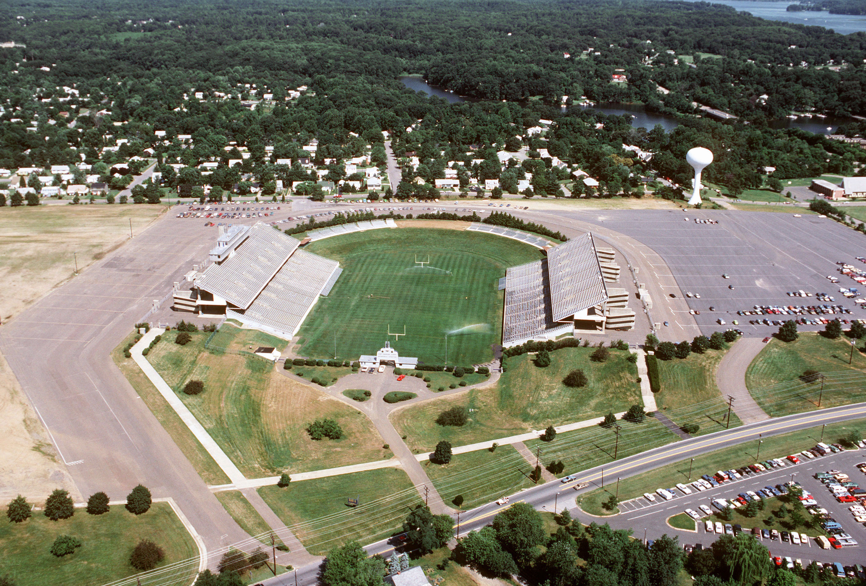 An aerial view of the United States Navy-Marine Corps Memorial Stadium, looking west.Location: ANNAPOLIS, MARYLAND (MD) UNITED STATES OF AMERICA (USA)